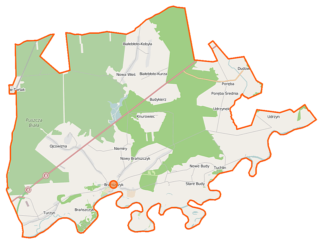 Map of Gmina Brańszczyk, Poland This map of Brańszczyk (gmina) was created from OpenStreetMap project data, collected by the community. This map may be incomplete, and may contain errors. Don't rely solely on it for navigation. Border coordinates52.732521.4793←↕→21.779052.5945